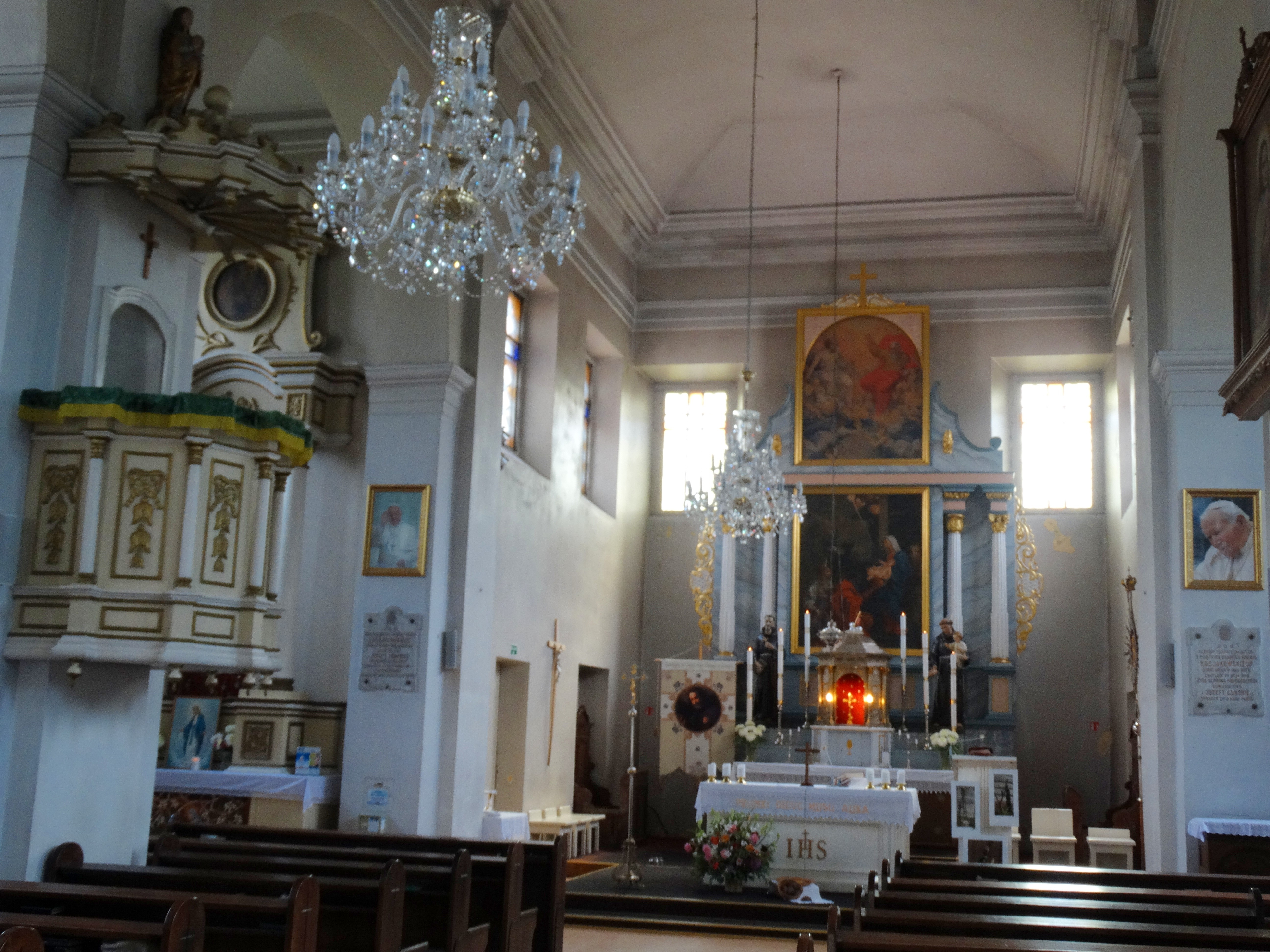 Saint James the Apostle Church, Jonava, Lithuania